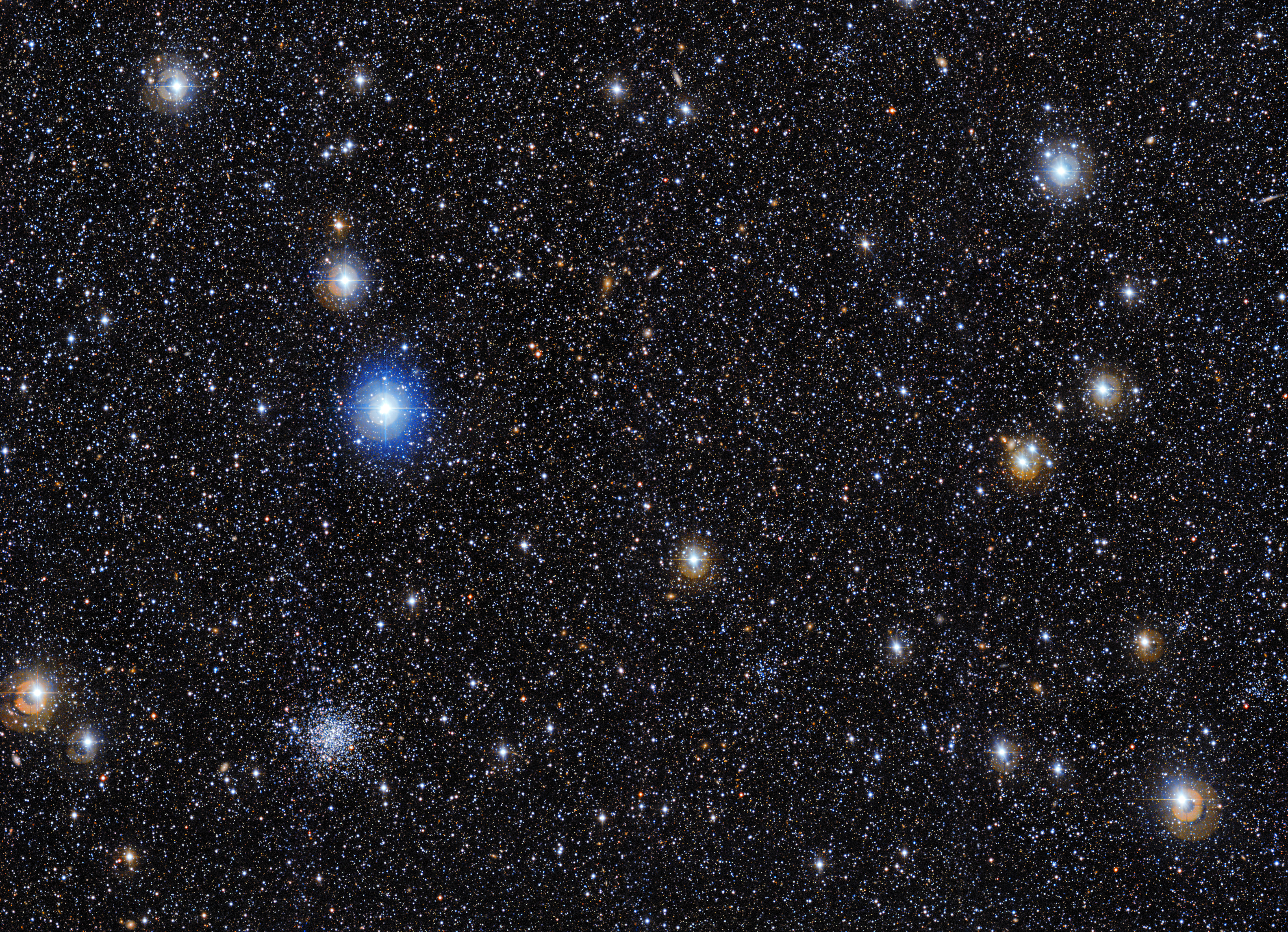 This image from the Wide-Field Imager on the MPG/ESO 2.2-metre telescope shows the starry skies around a galaxy cluster named PLCKESZ G286.6-31.3. The cluster itself is difficult to spot initially, but shows up as a subtle clustering of yellowish galaxies near the centre of the frame. PLCKESZ G286.6-31.3 houses up to 1000 galaxies, in addition to large quantities of hot gas and dark matter. As such, the cluster has a total mass of 530 trillion (530 000 000 000 000) times the mass of the Sun. When viewed from Earth, PLCKESZ G286.6-31.3 is seen through the outer fringes of the Large Magellanic Cloud (LMC) — one of the Milky Way’s satellite galaxies. The LMC hosts over 700 star clusters, in addition to hundreds of thousands of giant and supergiant stars. The majority of the cosmic objects captured in this image are stars and star clusters located inside the LMC . The MPG/ESO 2.2-metre telescope has been in operation at ESO’s La Silla Observatory since 1984. The telescope has been utilised for a variety of cutting-edge scientific studies, including ground-breaking research into gamma-ray bursts, the most powerful explosions in the Universe. The 67-million-pixel Wide Field Imager (WFI) — mounted on the telescope’s Cassegrain focus — has been obtaining detailed views of faint, distant objects since 1999. The data to create this image was selected from the ESO archive as part of the Hidden Treasures competition.